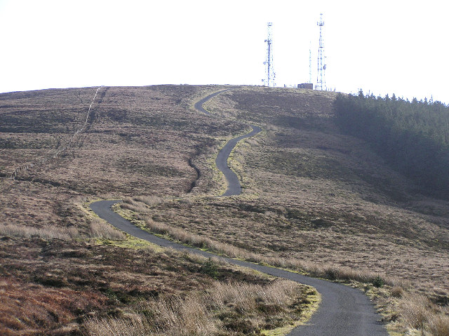 Mullaghcarn Mountain. The last leg of the 3 mile walk to the top of Mullaghcarn and there's still the journey back down. On the summit is the carn and two radio communications masts, all in different squares. My heartbeat was going faster as I went up the hill.